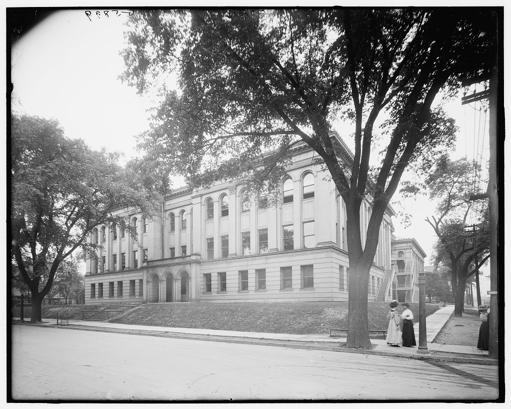 Original image at Library of Congress: This work is from the Detroit Publishing Co. collection at the Library of Congress. According to the library, there are no known copyright restrictions on the use of this work.Most of the images in this collection were published before 1924 and are therefore in the public domain in the United States. A few images were published after this date and may be restricted by copyright. Template:Lccn Title [Central high school, Toledo, Ohio] Contributor Names Detroit Publishing Co., publisher Created / Published [between 1900 and 1915] Subject Headings - Schools - Educational facilities - United States--Ohio--Toledo Format Headings Dry plate negatives. Genre Dry plate negatives Notes - Title from jacket. - "G 5899" on negative. - Detroit Publishing Co. no. 039015. - Gift; State Historical Society of Colorado; 1949. Medium 1 negative : glass ; 8 x 10 in. Call Number/Physical Location LC-D4-39015 [P&P] Source Collection Detroit Publishing Company photograph collection (Library of Congress) Repository Library of Congress Prints and Photographs Division Washington, D.C. 20540 USA Digital Id det 4a19342 //hdl.loc.gov/loc.pnp/det.4a19342 Library of Congress Control Number 2016810679 Reproduction Number LC-DIG-det-4a19342 (digital file from original) Rights Advisory No known restrictions on publication. Online Format image Description 1 negative : glass ; 8 x 10 in. LCCN Permalink